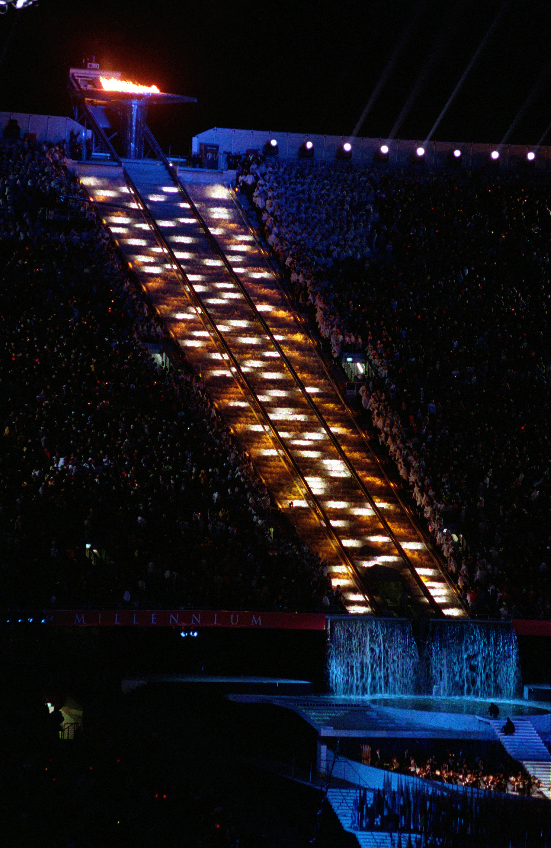 The Olympic torch is lit while raised to the top of the Olympic Stadium before an audience of 110,000 on September 15th, 2000, during the opening ceremonies for the Sydney 2000 Olympics.